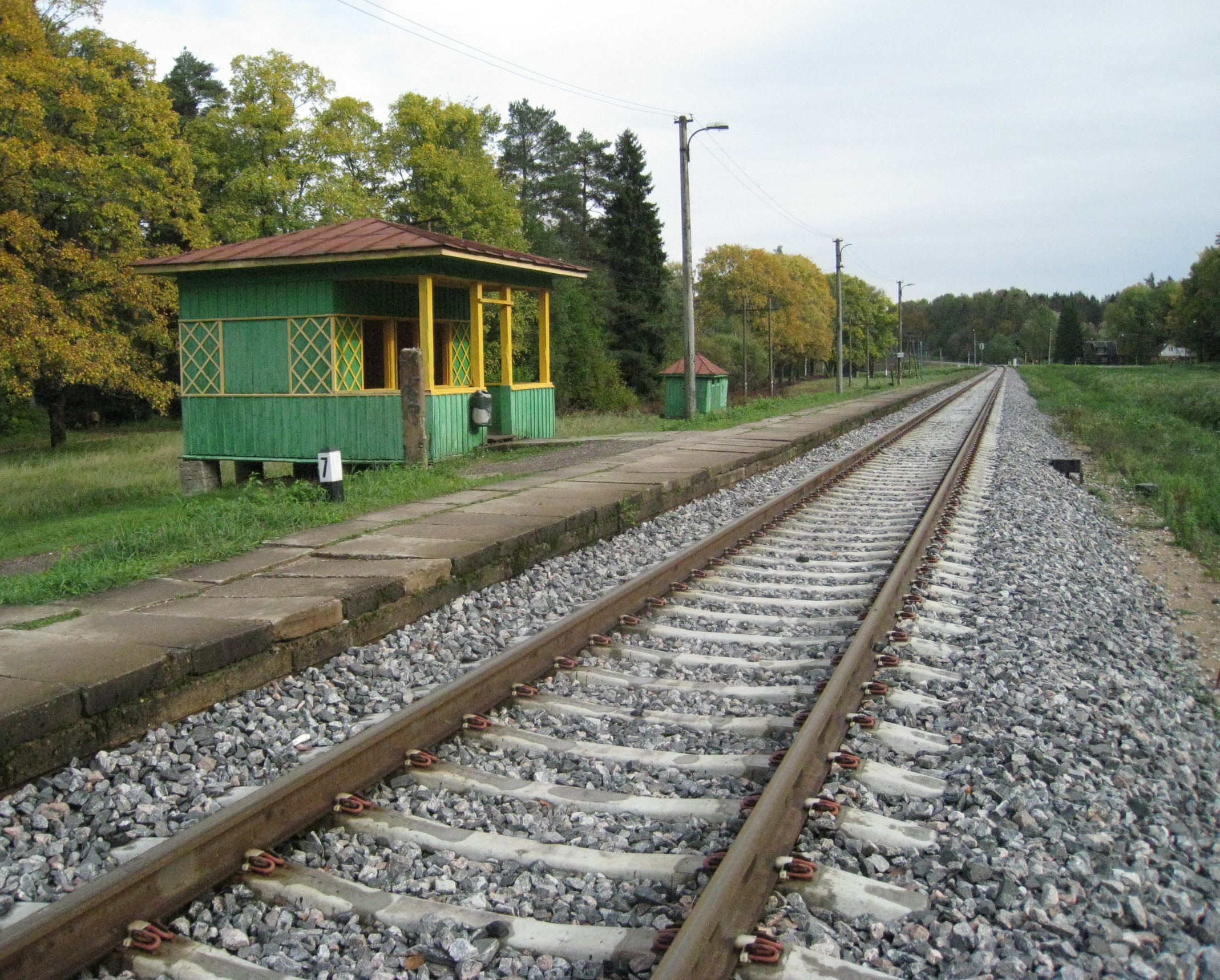 Peedu raudteepeatuskoht